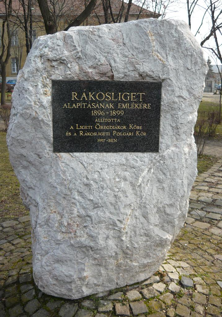 Commemorating the 100th anniversary of the foundation of the village of Rákosliget; now a suburb of Budapest